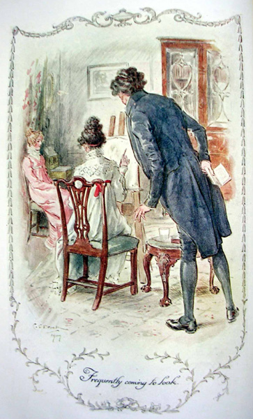 Colour illustration of a 1909 edition of Emma (Jane Austen's novel), by C. E. Brock (died 1938)